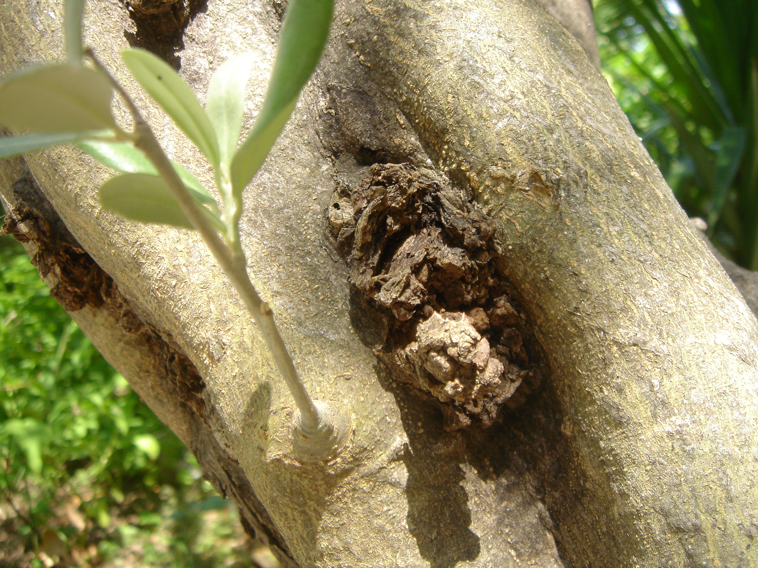 Infection of olive tree by Pseudomonas syringae subsp. savastanoi pv. oleae / found in Greece, Pilion